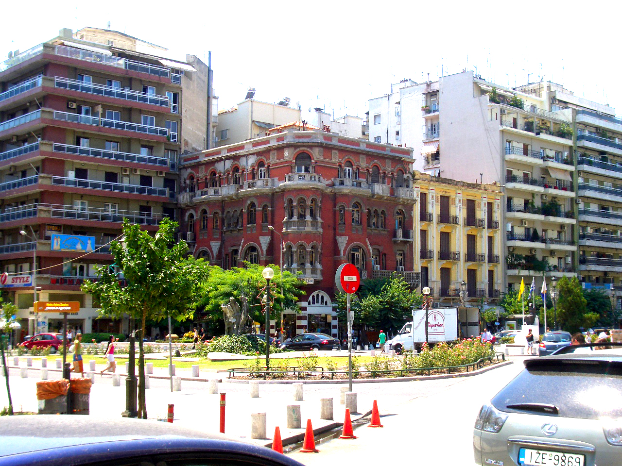 Derelict building at the corner of the Streets Agias Sofias and Ermou, Thessaloniki